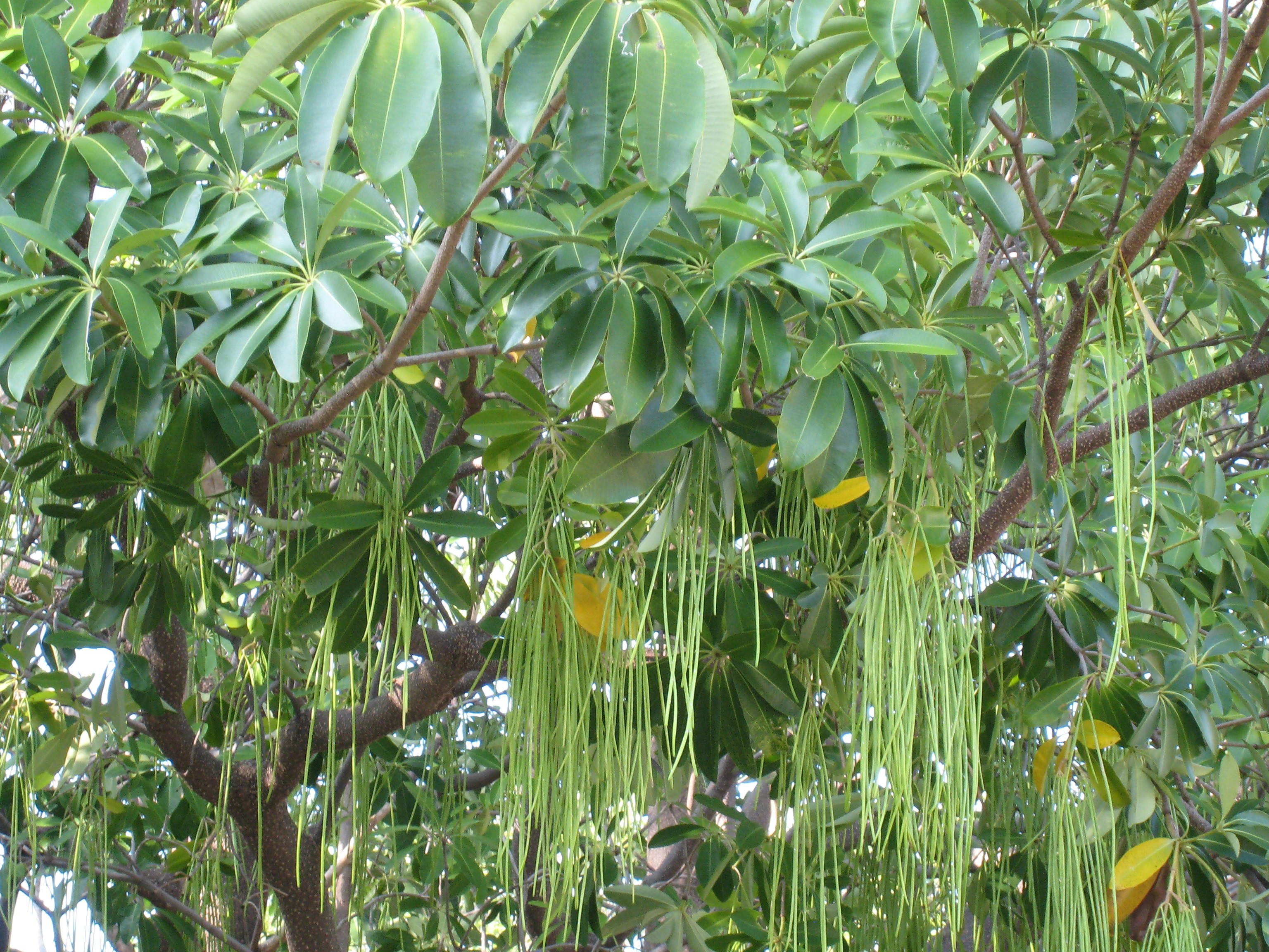 Alstonia scholaris, Bradshaw Field Training Area, the Kimberley, NT, Australia